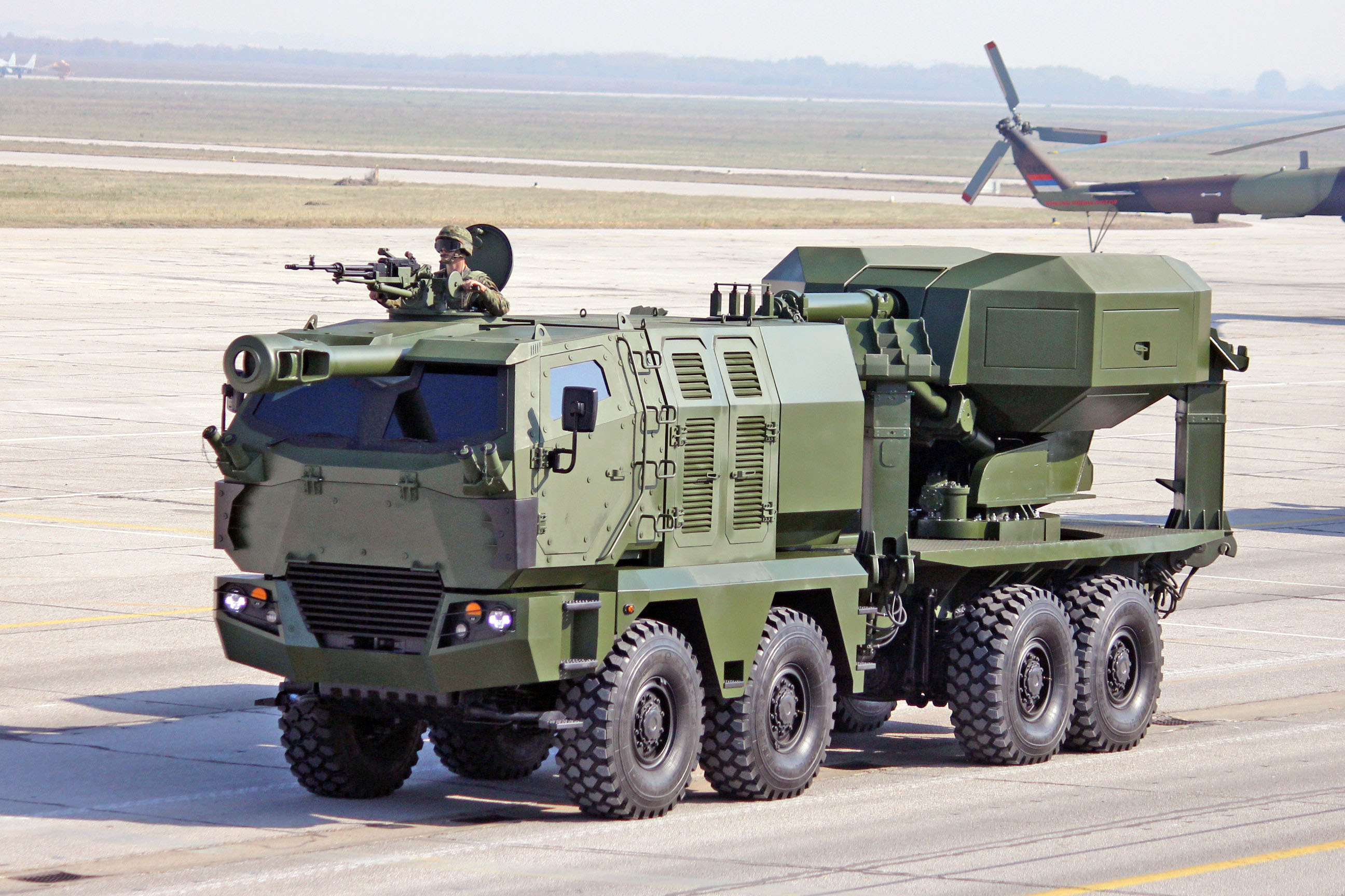 Serbian army new MSG-25 Aleksandar 155mm howitzer on Sloboda 2019 military parade and exercise at "Colonel-pilot Milenko Pavlović" military airport.